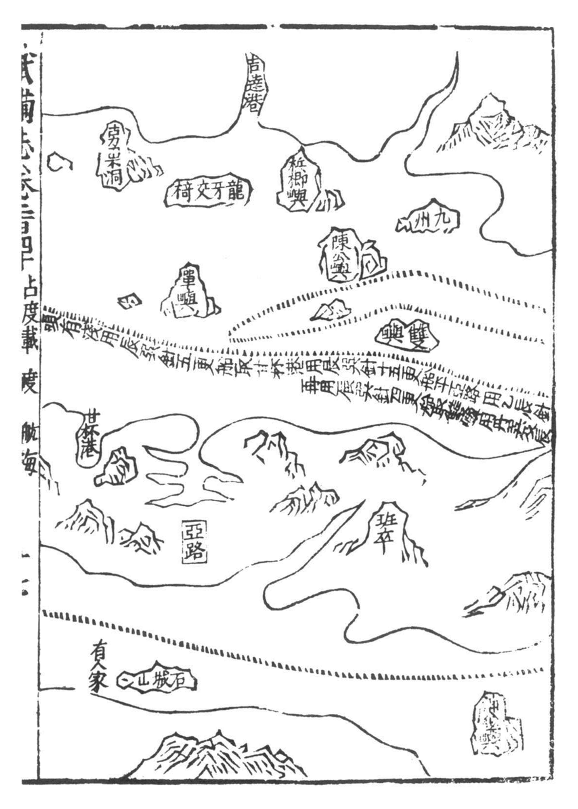 Mao Kun map showing the island of Langkawi (龍牙交椅), Kedah river estuary (吉達港), Penang island (梹榔嶼), Pulau Sembilan (九州) and part of the island of Sumatra showing Kingdom of Aru (亞路, Deli district).